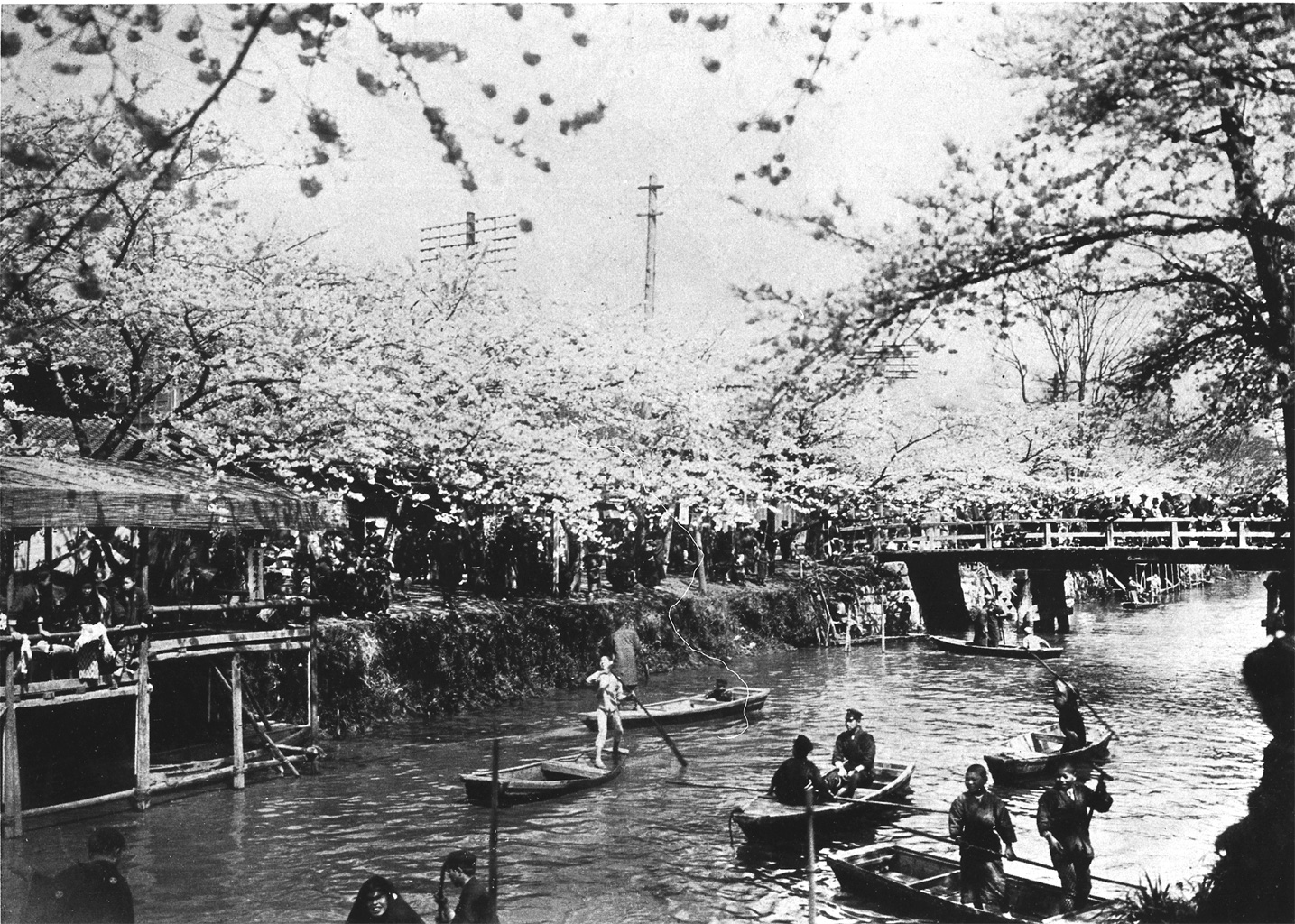 Edo river, cherry blossoms in full bloom. 1910.